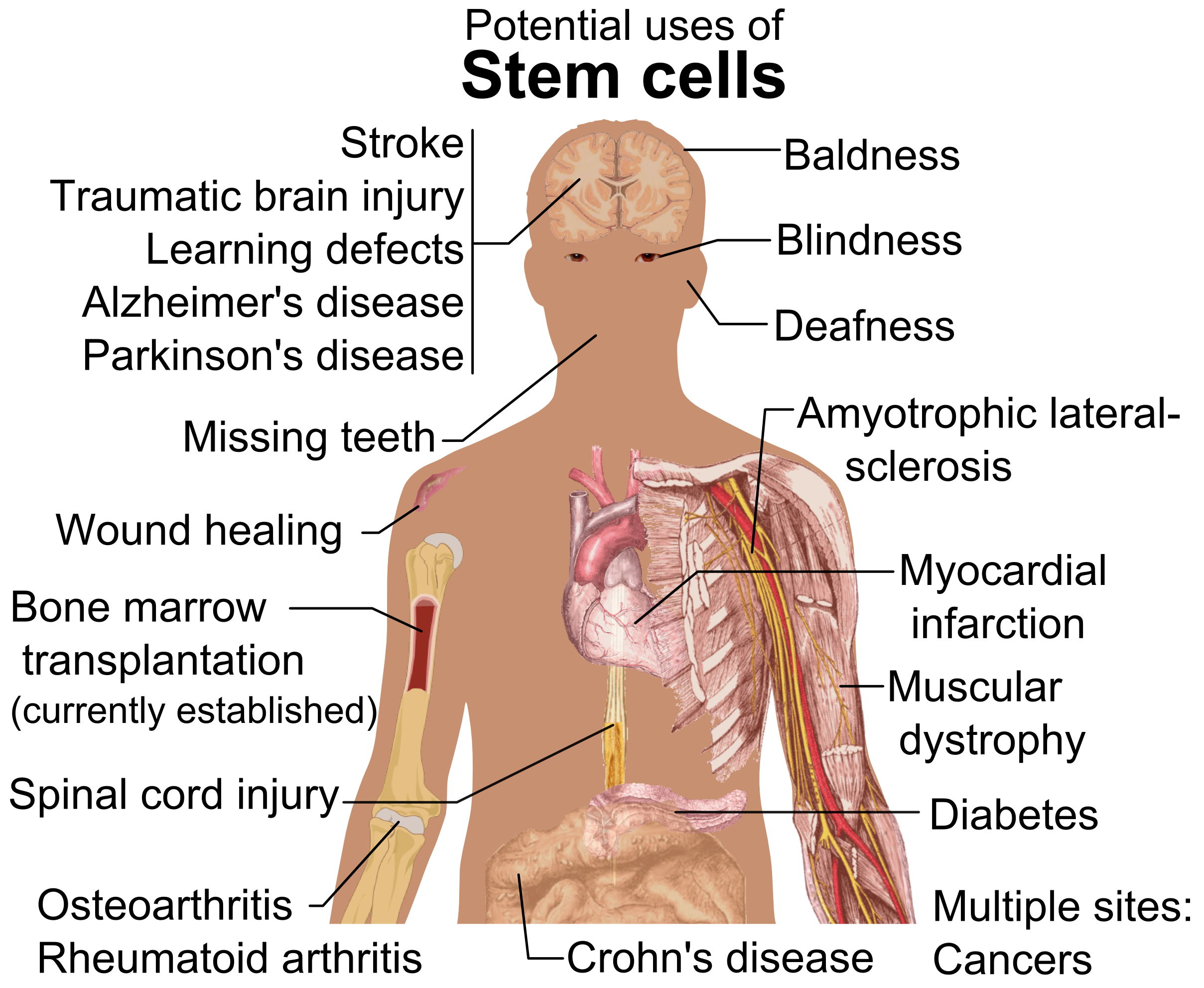 Diseases and conditions where stem cell treatment is promising or emerging. (See Wikipedia:Stem cell#Treatments). Bone marrow transplantation is, as of 2009, the only established use of stem cells. To discuss image, please see Template talk:Human body diagrams